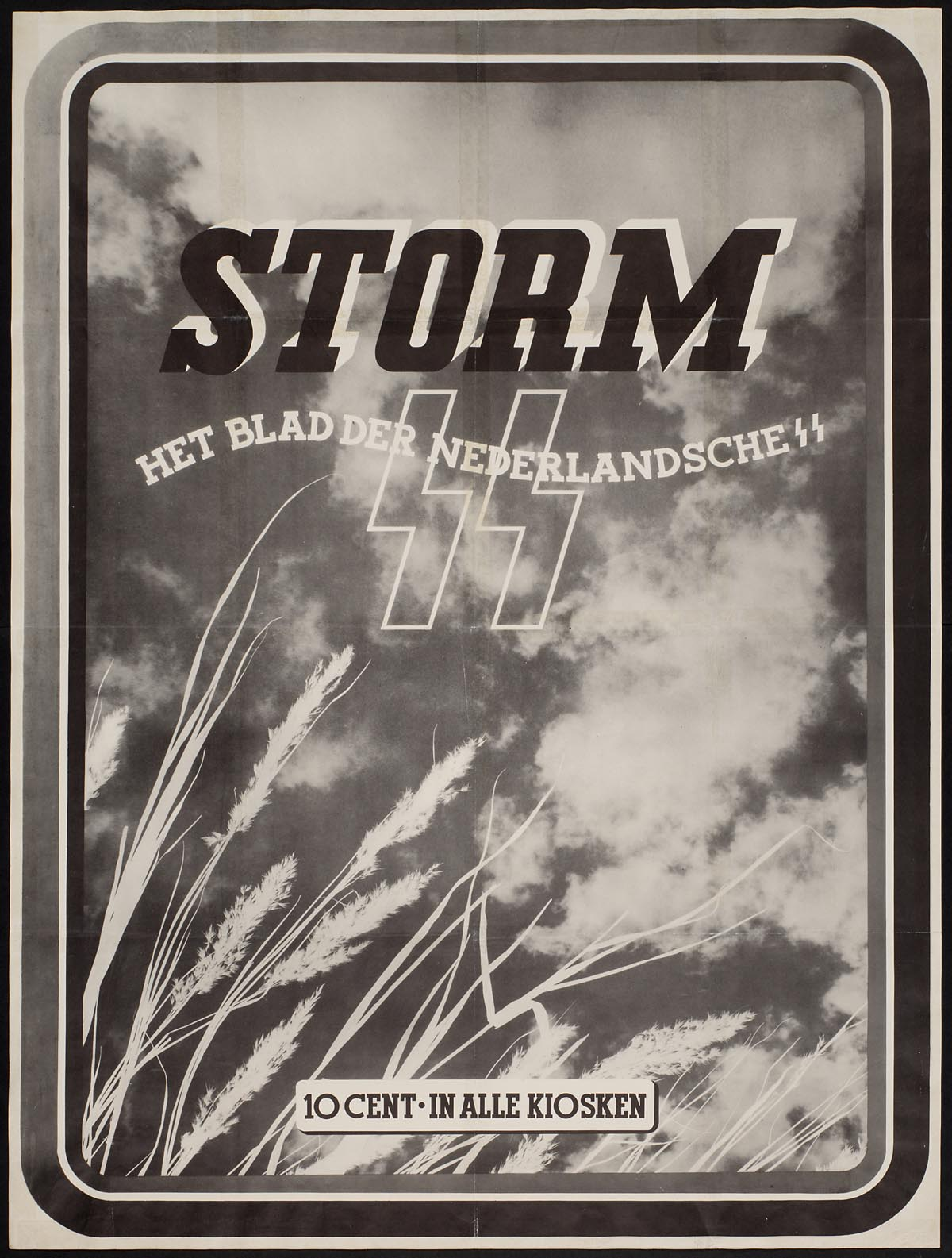 Poster: "Storm the magazine of the Dutch SS in all kiosks 10 cents."